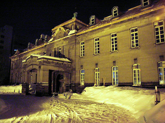 Sapporo City Archive Museum. Ōdōrinishi 13chōme, Chūō Ward, Sapporo, Japón. Built in 1926 as the Sapporo Court of Appeal. It have been used as the Sapporo City Archive Musium since 1973.